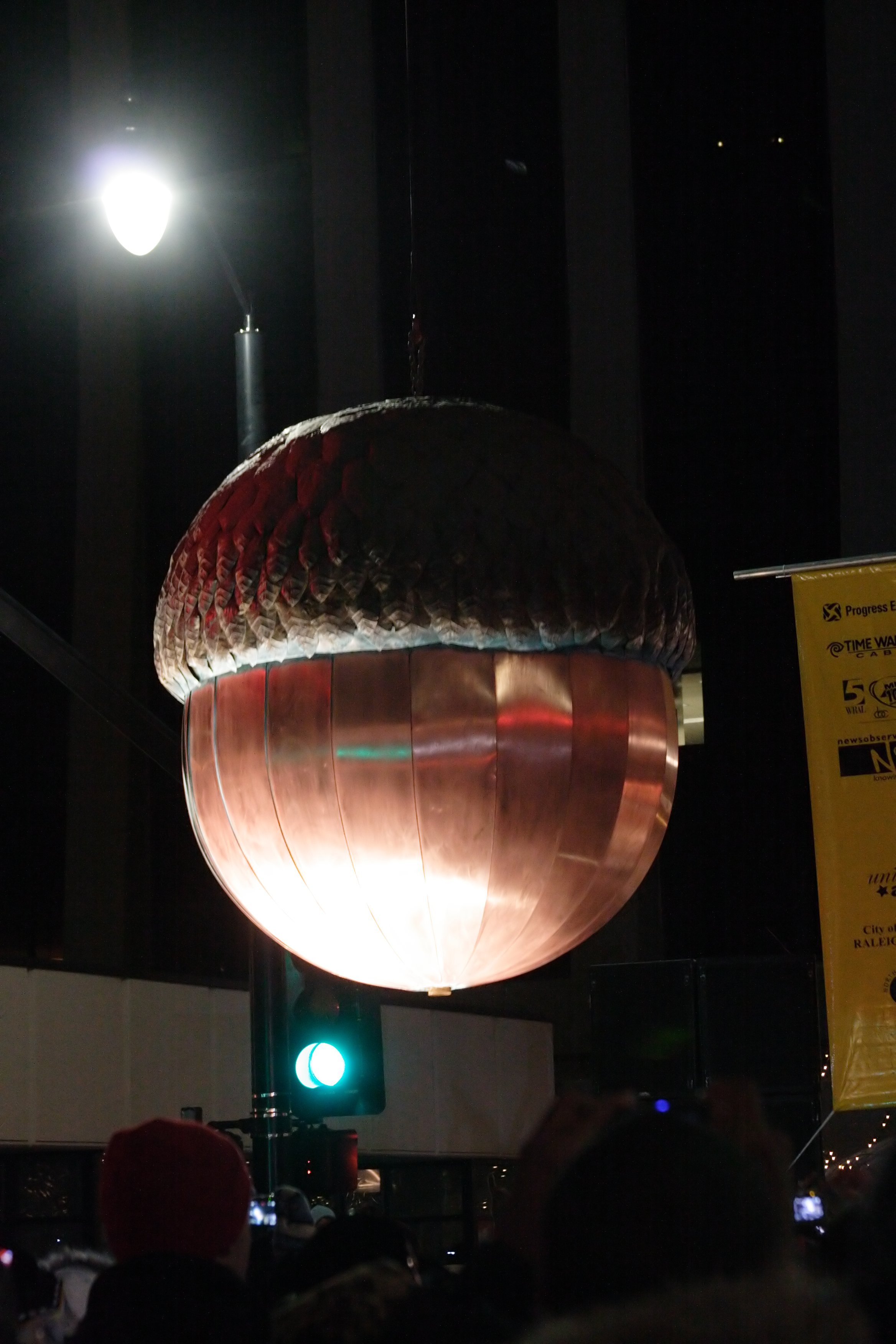 This is the acorn emblematic of Raleigh, North Carolina which usually sits on a pole in Moore Square but lately is removed, suspended from a crane, and lowered at midnight to mark the new year. It is a festive time ball.